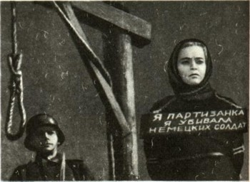 Film still She Defends the Motherland (1943)